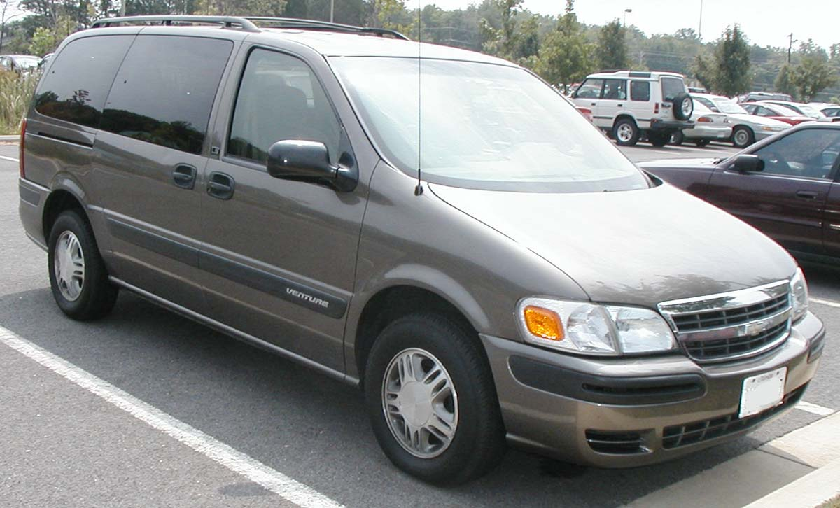 2001-2004 Chevrolet Venture photographed in USA.